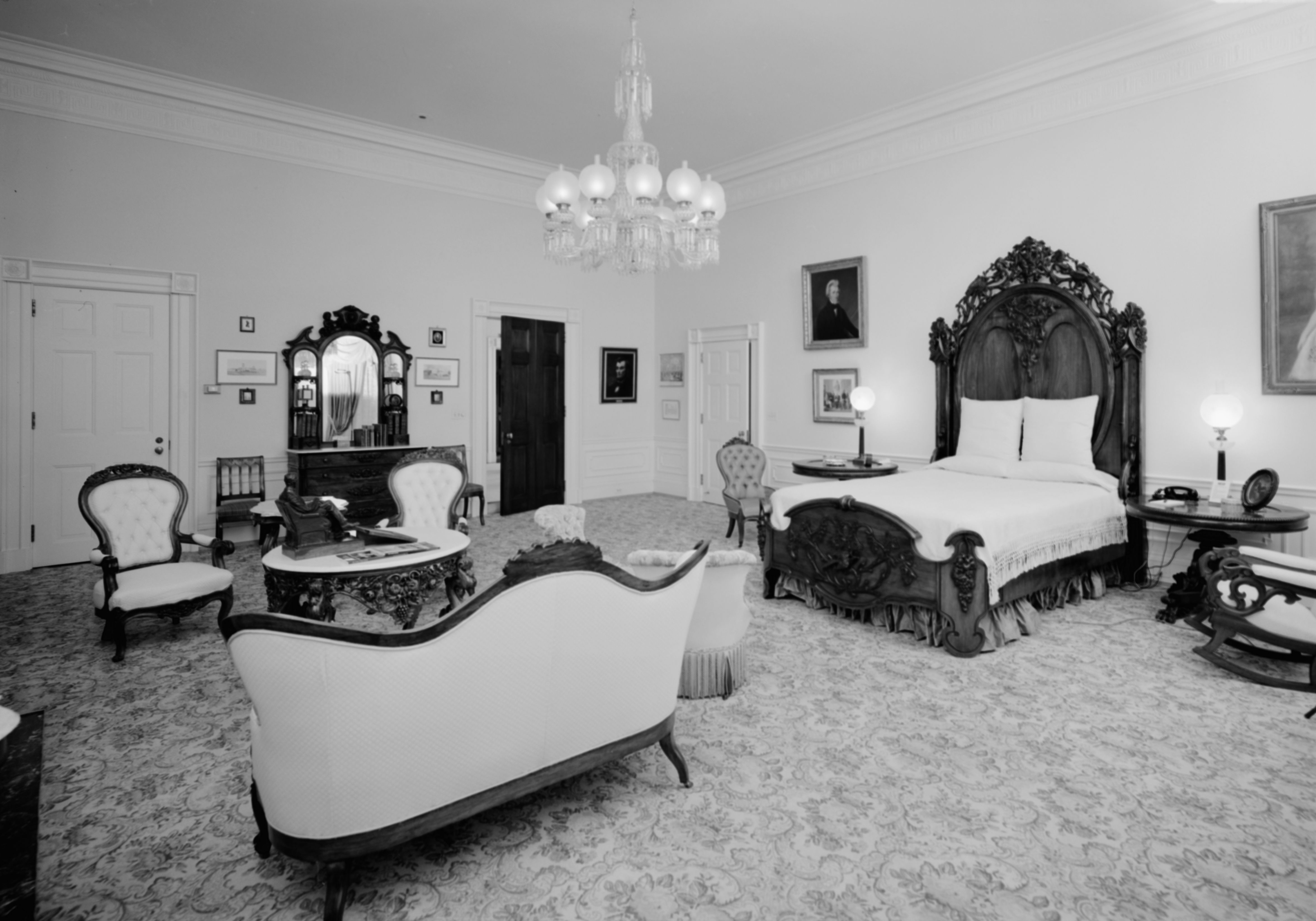 Lincoln Bedroom in the White House